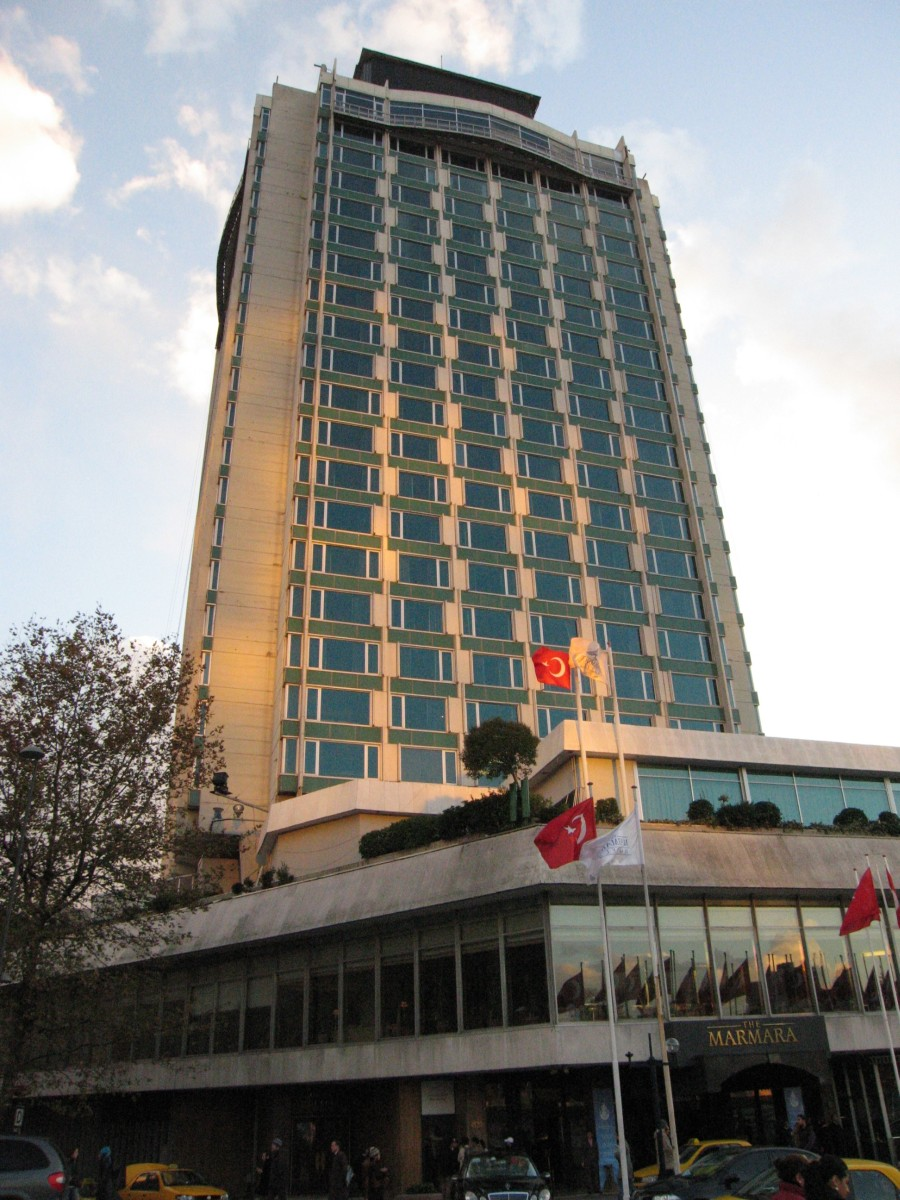 The Marmara Hotel in Taksim quarter of Istanbul, Turkey.